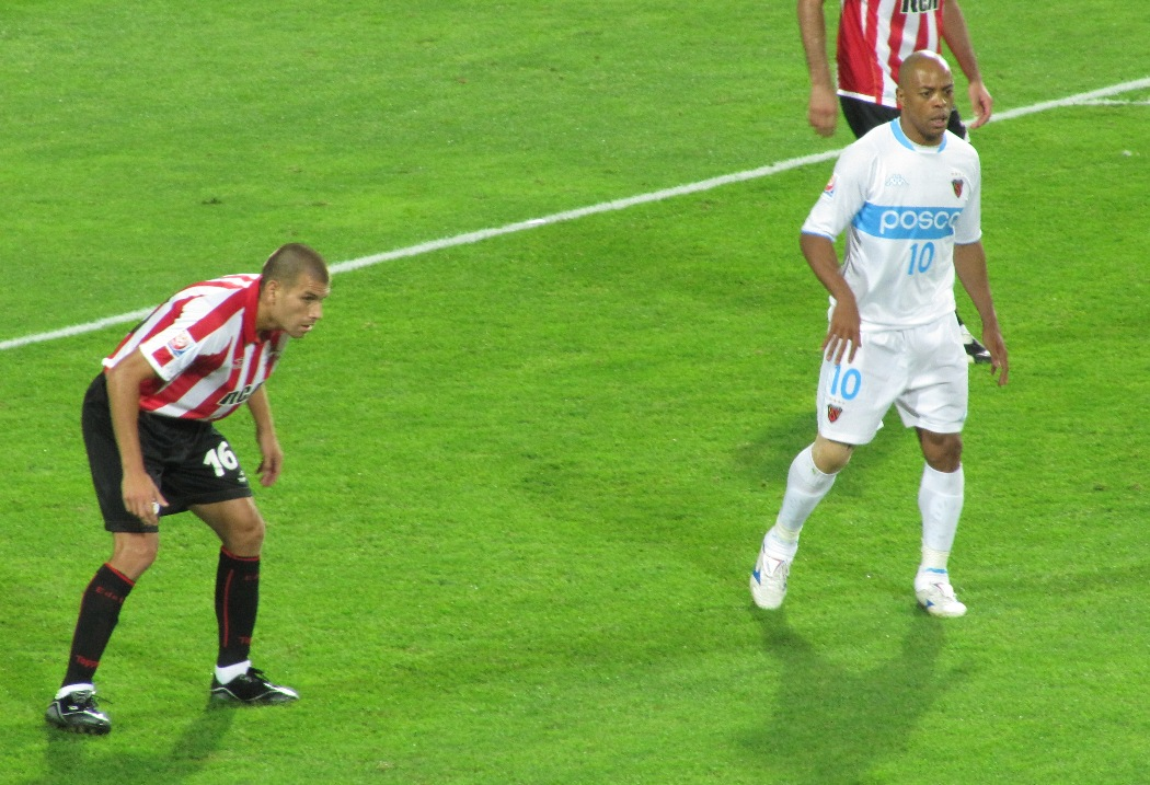 Germán Ré & Denilson during the semifinal match of 2009 FIFA Club World Cup in Abu Dhabi.